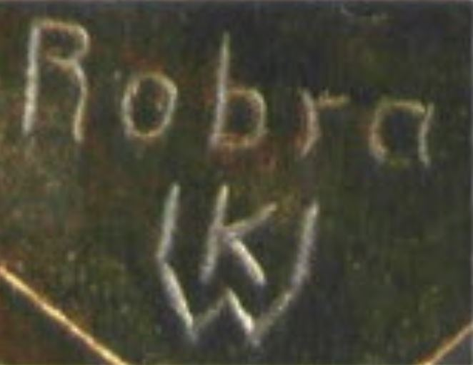 Signature of German sculptor Wilhelm Karl Robra (187—1945)